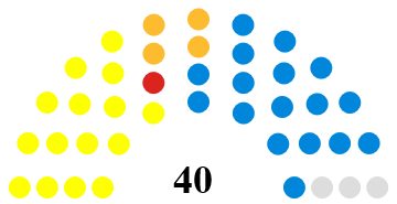 A diagram showing the distribution of seats on Perth and Kinross council following the 2017 election